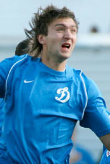 Dmitry Larin in action for FC Dynamo Bryansk